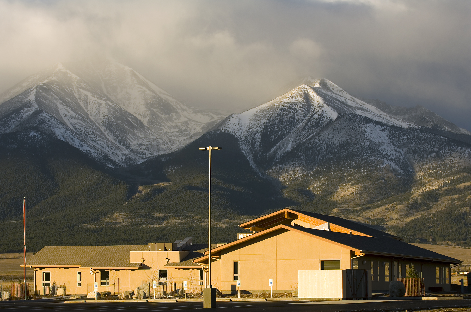 Aerial view of the Buena Vista campus